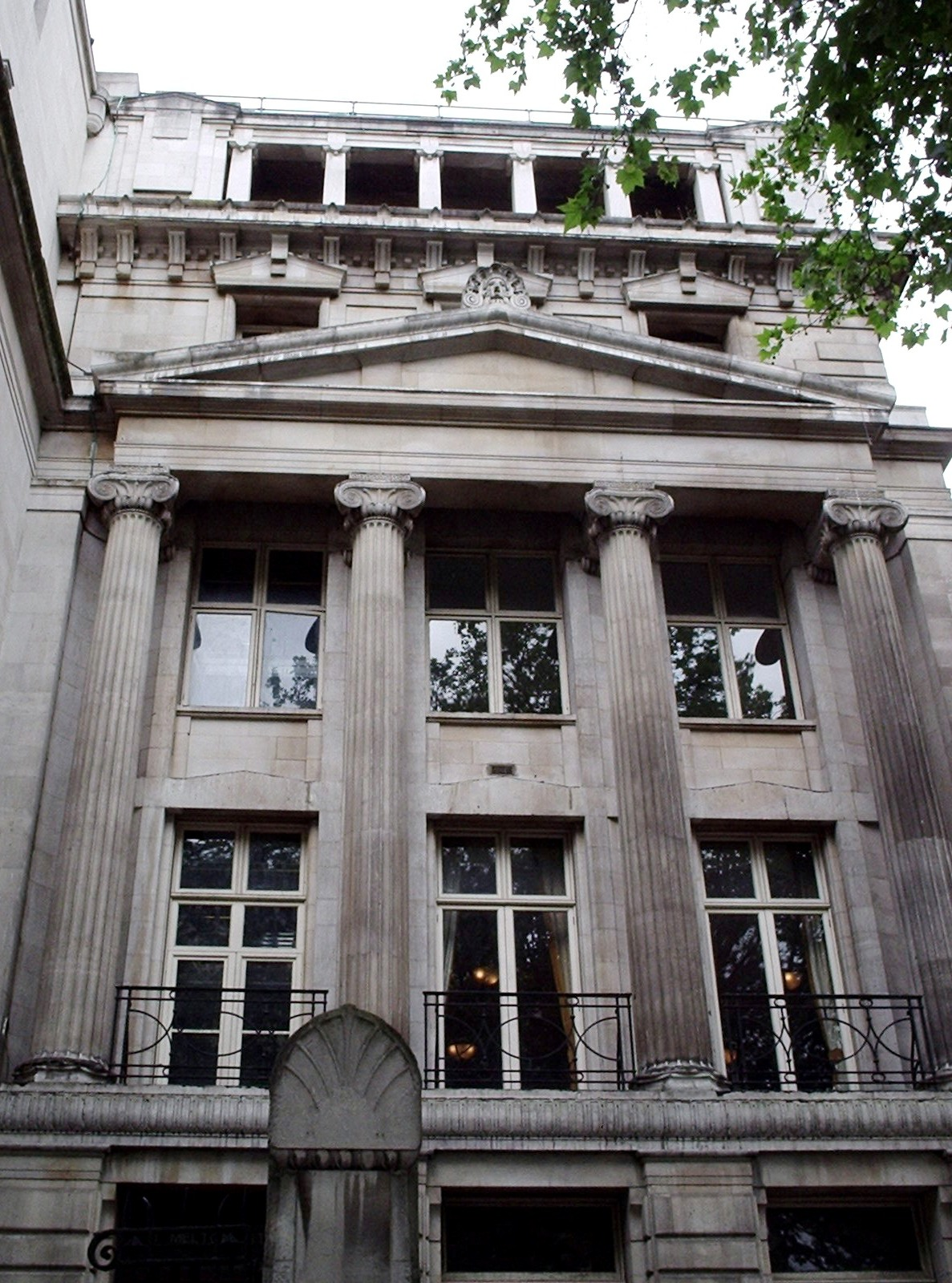 30 Euston Square London, built by Arthur Beresford Pite. Photo by J Trend-Hill